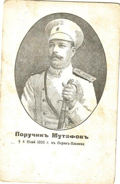 Portrait of IMARO member Vasil Mutafov from Shumen